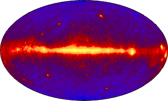 Gamma ray spectroscopy: EGRET All-Sky Gamma Ray Survey above 100 MEv. The bright line is the Milkyway